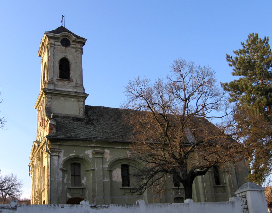 Chortanovci_orthodox_church